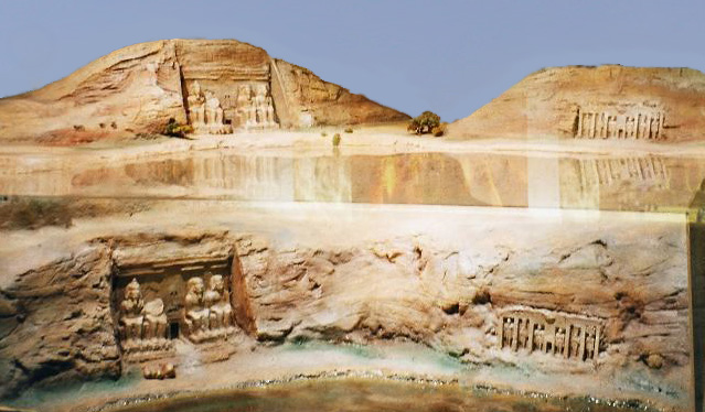 Model showing the relative positions of the Abu Simbel temples before and after their relocation; the horizontal line in the center of the photo indicates Lake Nasser's current water level. On display in the Nubian Museum, Aswan.